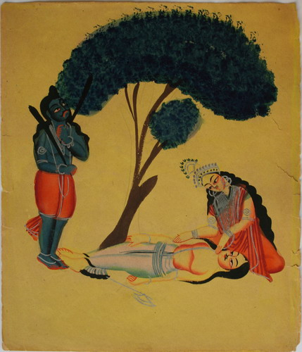 Savitri_begs_Yama_not_to_take_Satyaban, Kalighat painting